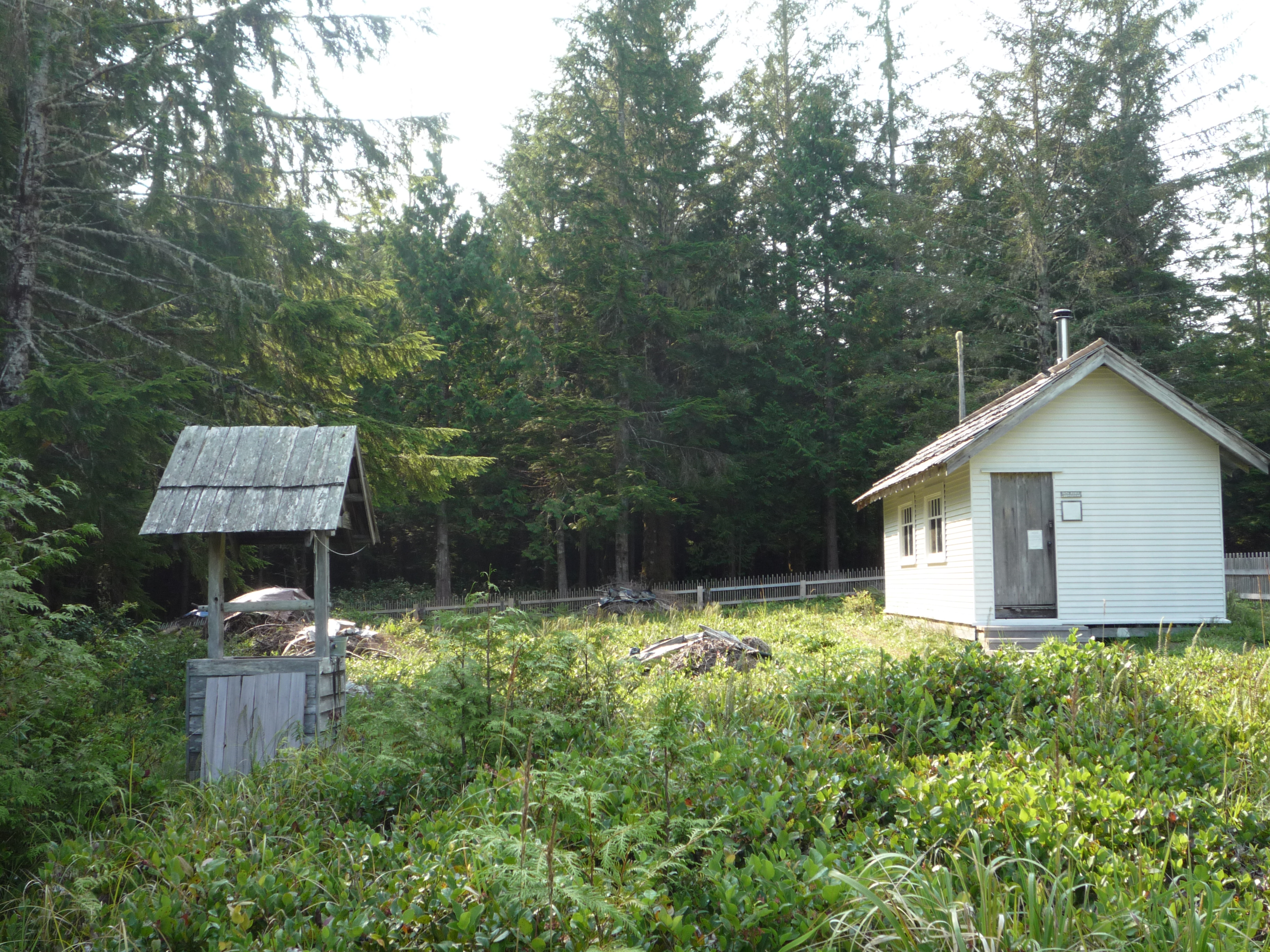 Peter Roose HomesteadThe house and well.